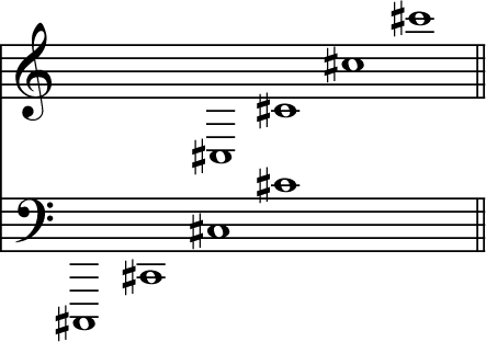 Notes, C Sharp